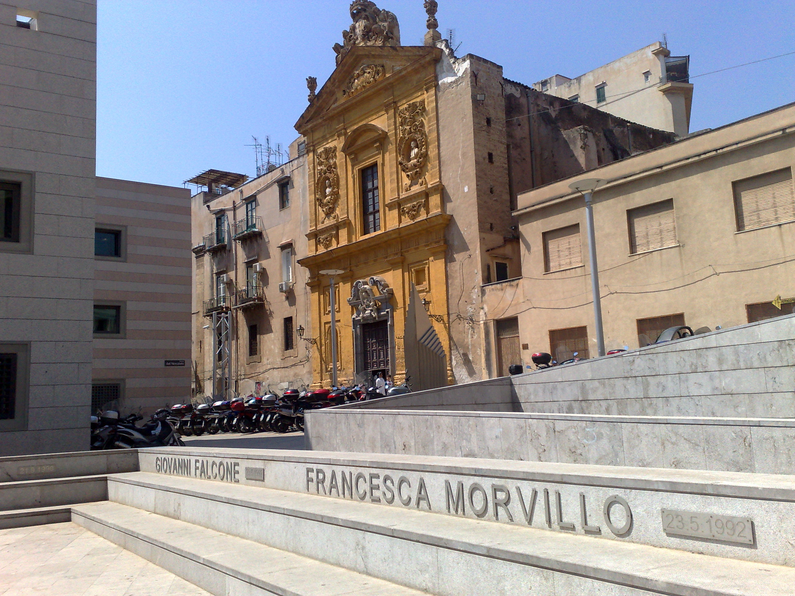 Palermo, Square commemorating Giovanni Falcone and other magistrates killed by mafia